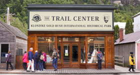 The Trail Center on 520 Broadway in Skagway part of the Klondike Goldrush NHO; previously Boss Bakery